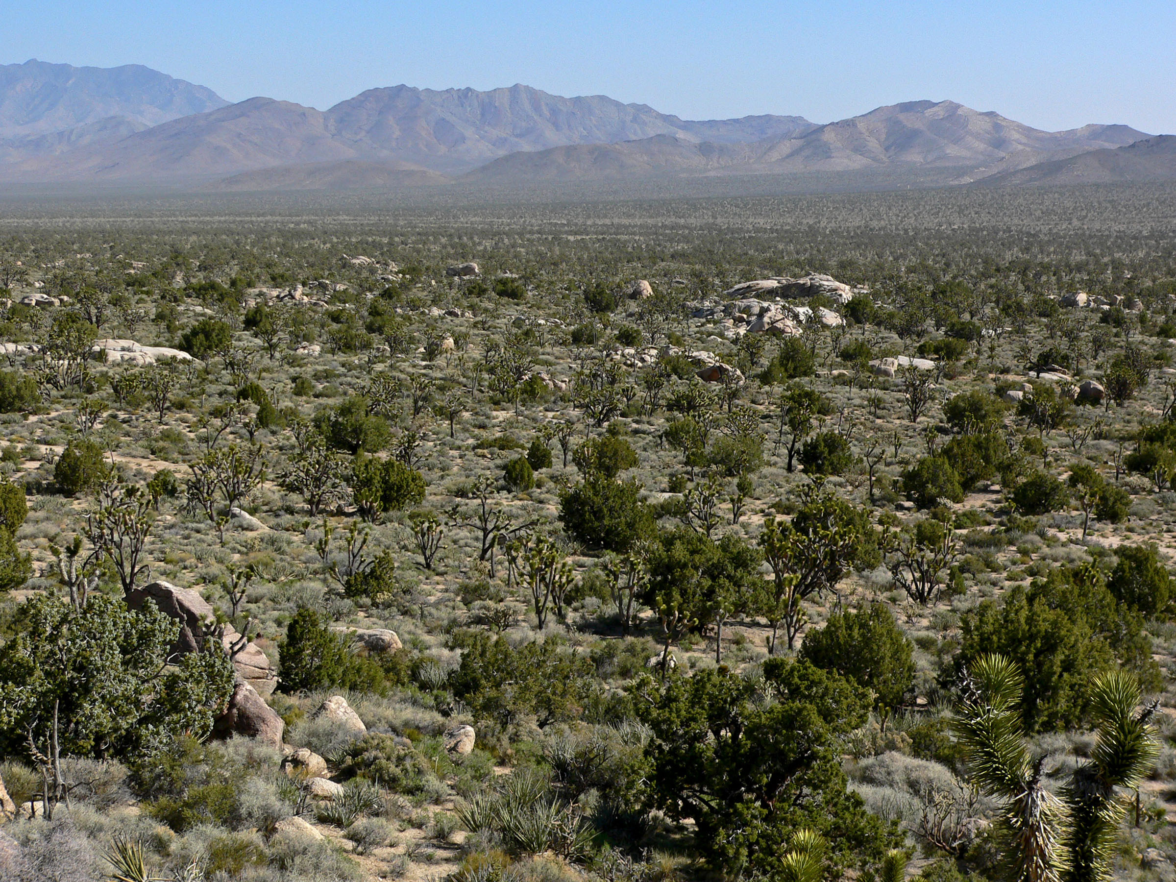 Category:|Cima Dome landscape, with Mescal Range on the horizon, in Mojave National Preserve, California.